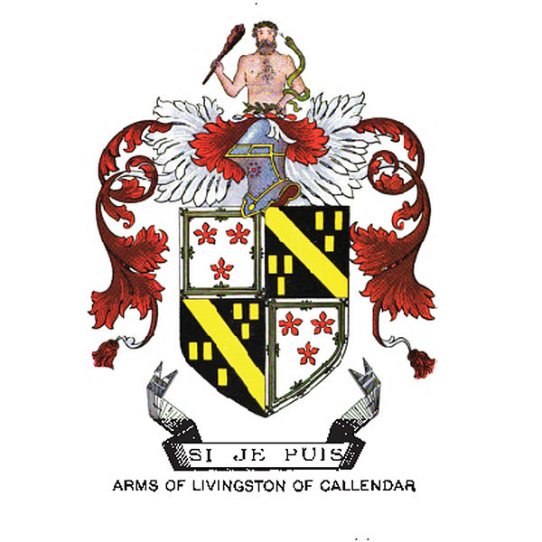 According to Edwin Brockholst Livingston, this is the "correct arms for the Livingstons of America."